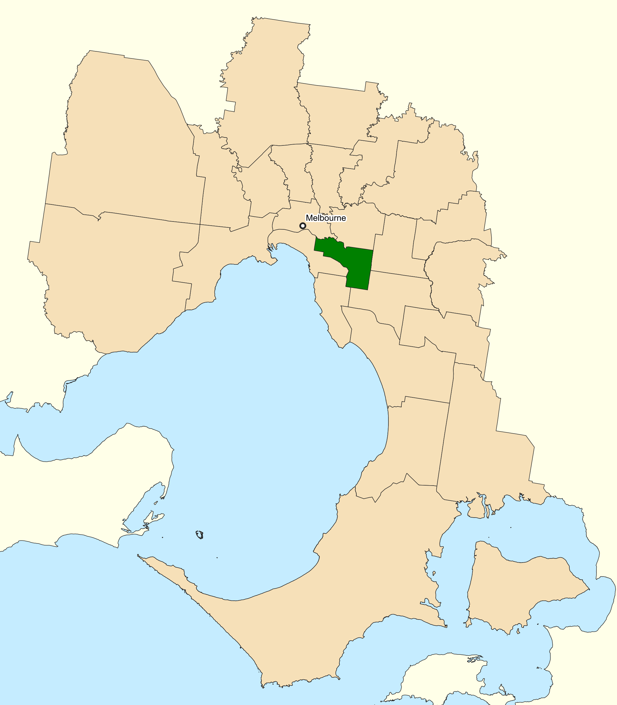 Location of the Australian federal electoral division of Higgins (dark green) in Greater Melbourne, Victoria as of the 2019 Australian federal election. Incorporates or developed using Administrative Boundaries ©PSMA Australia Limited licensed by the Commonwealth of Australia under Creative Commons Attribution 4.0 International licence (CC BY 4.0).